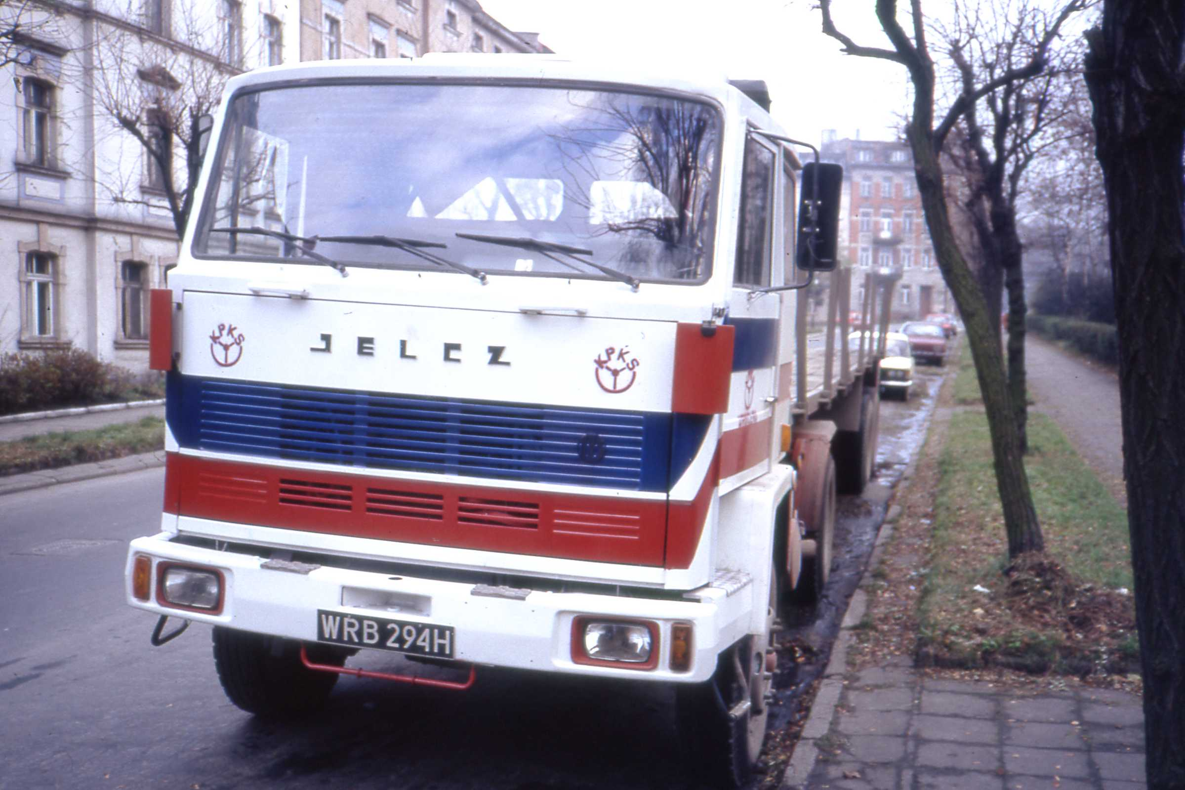 Wrocław registered Jelcz C417D truck in Legnica, Poland.